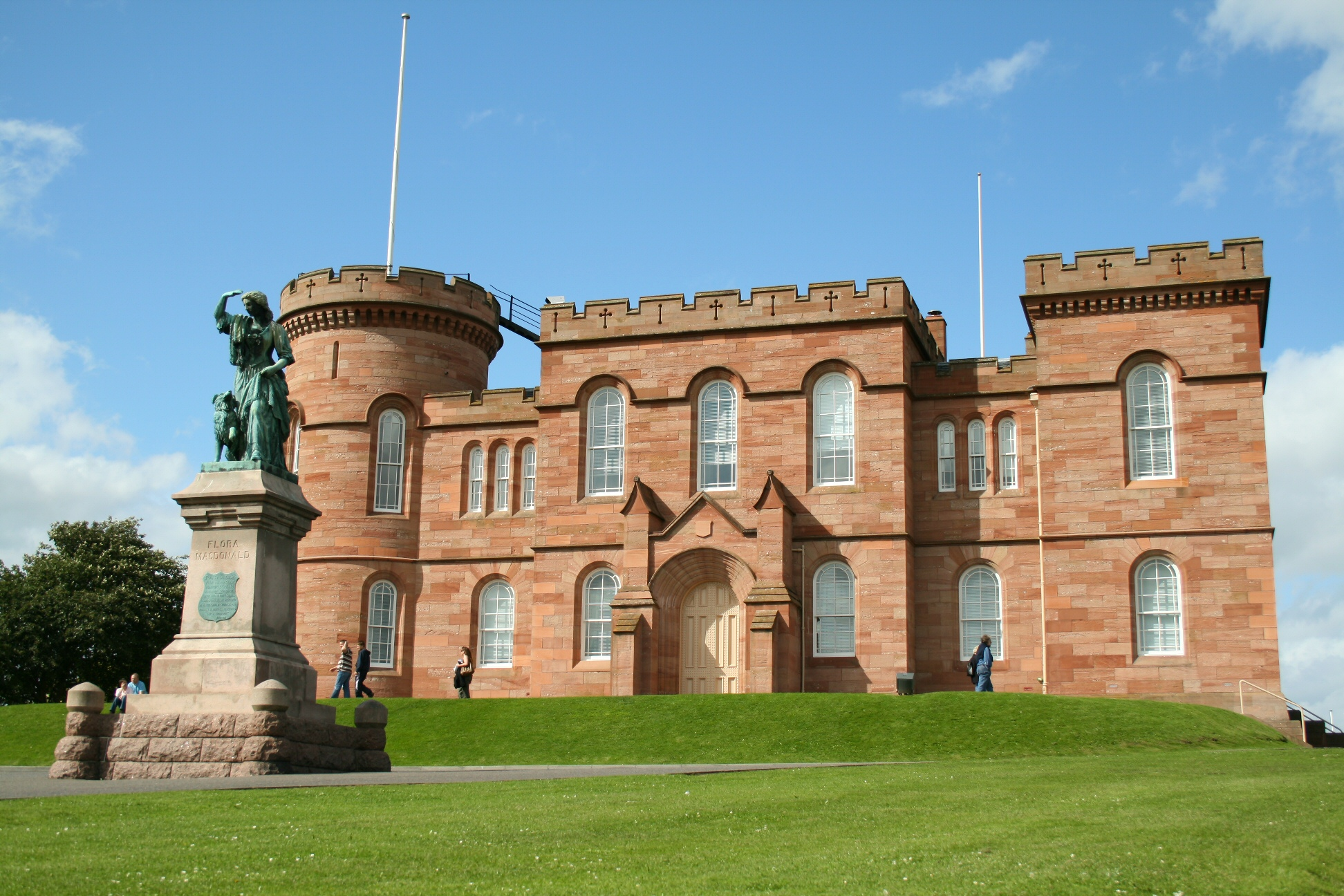 The castle in Inverness